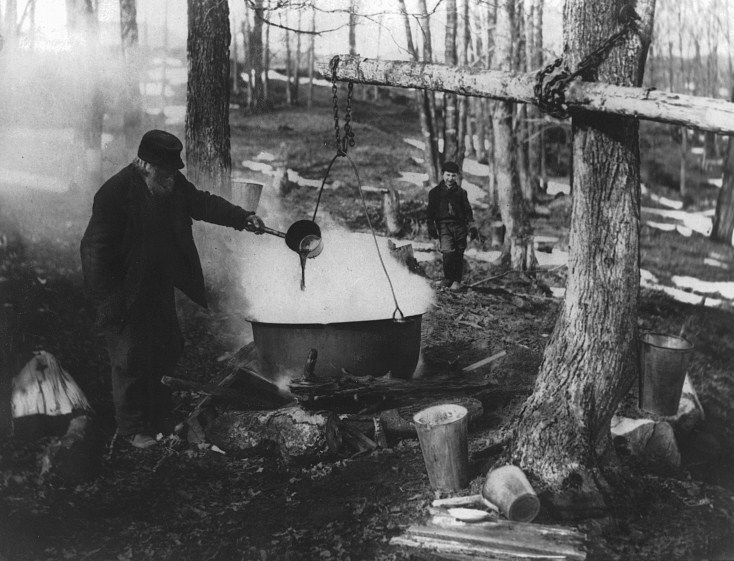 Boiling Maple Syrup, Eastern Townships, Quebec, Canada.